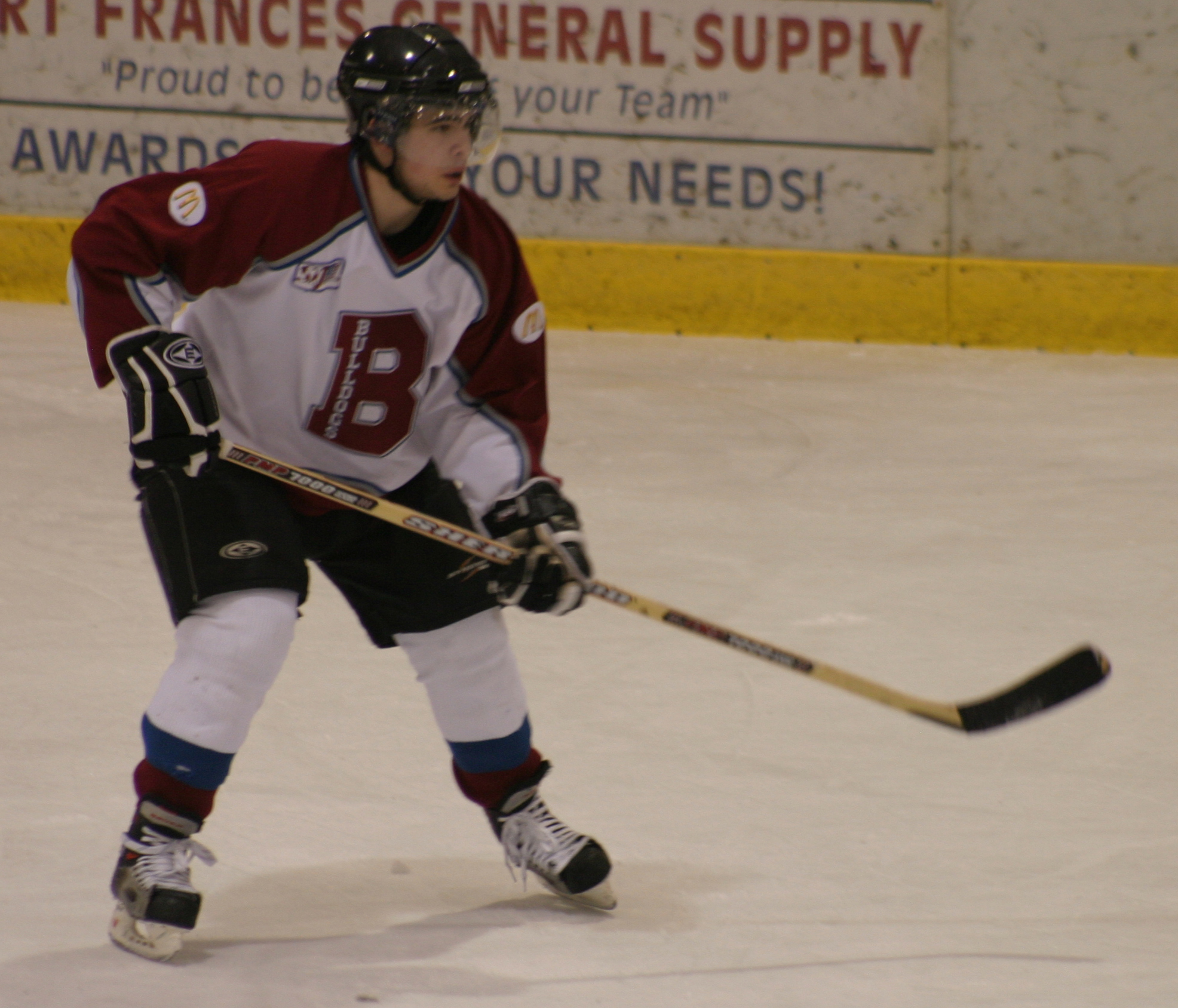 Thunder Bay Bulldogs forward Myles Stevens during a game at Fort Frances against the Jr. Sabres on 25 Jan. 2008.